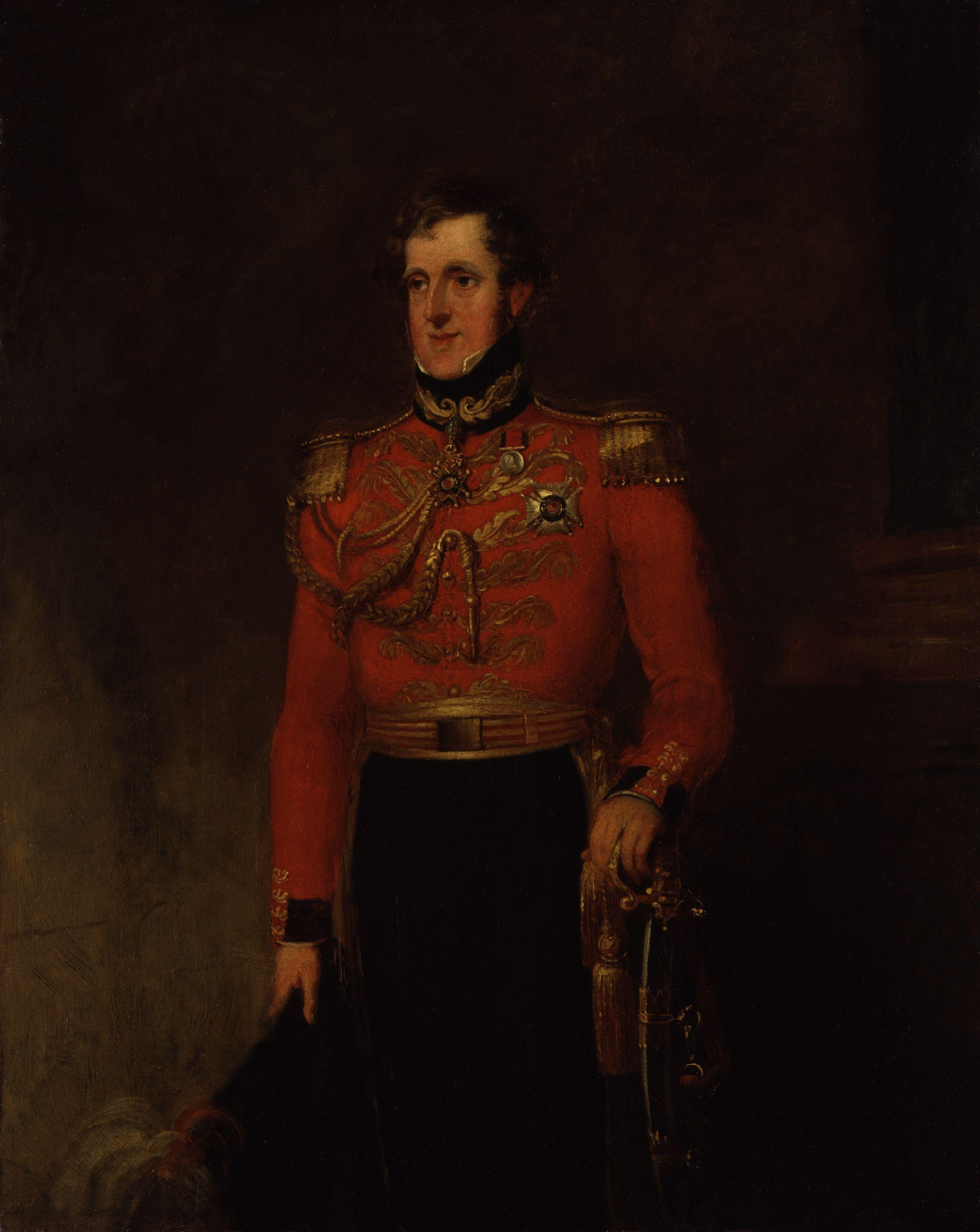 All images in this batch have been confirmed as author died before 1939 according to the official death date listed by the NPG.